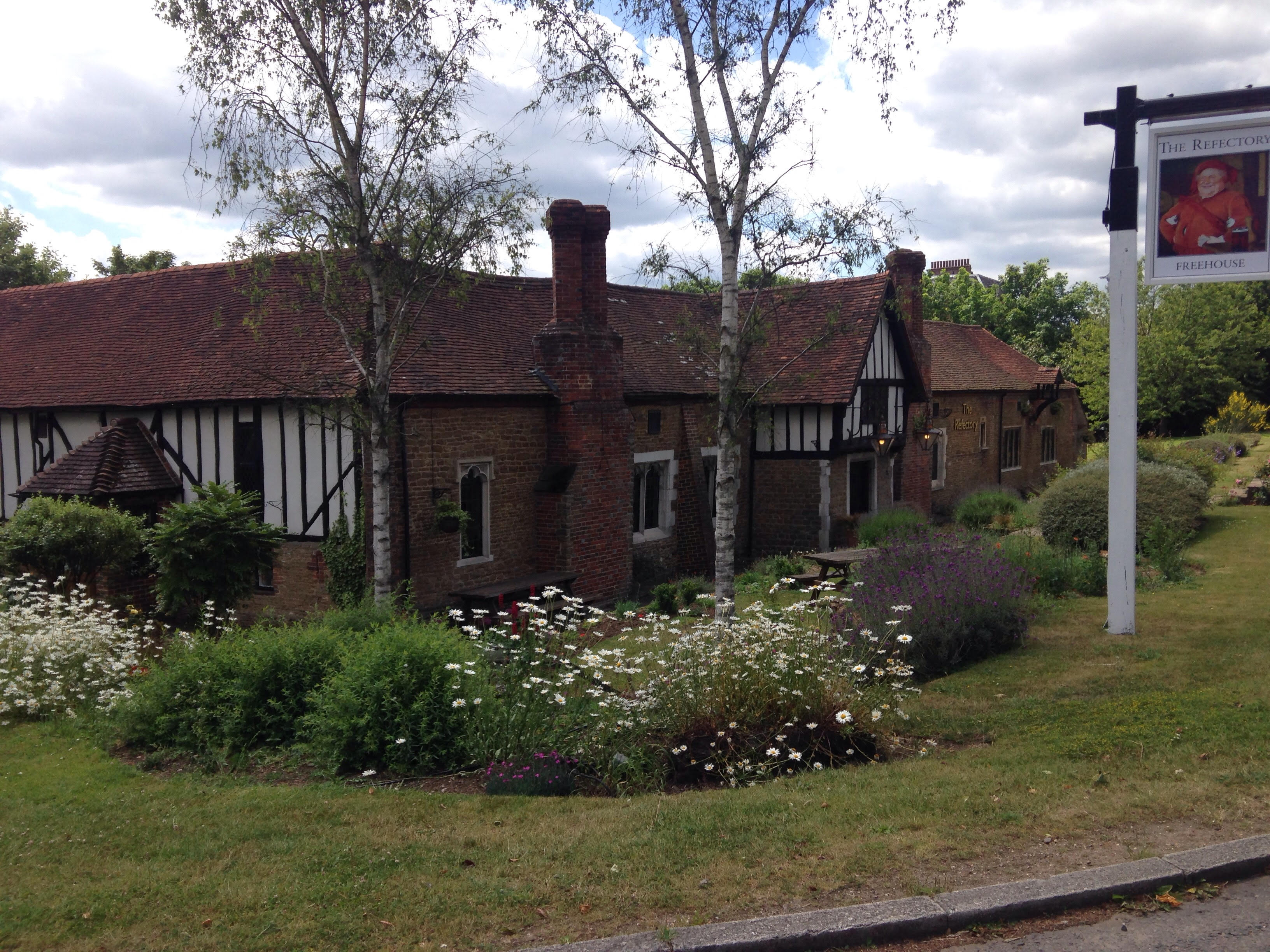 The Refectory, Milford, Surrey